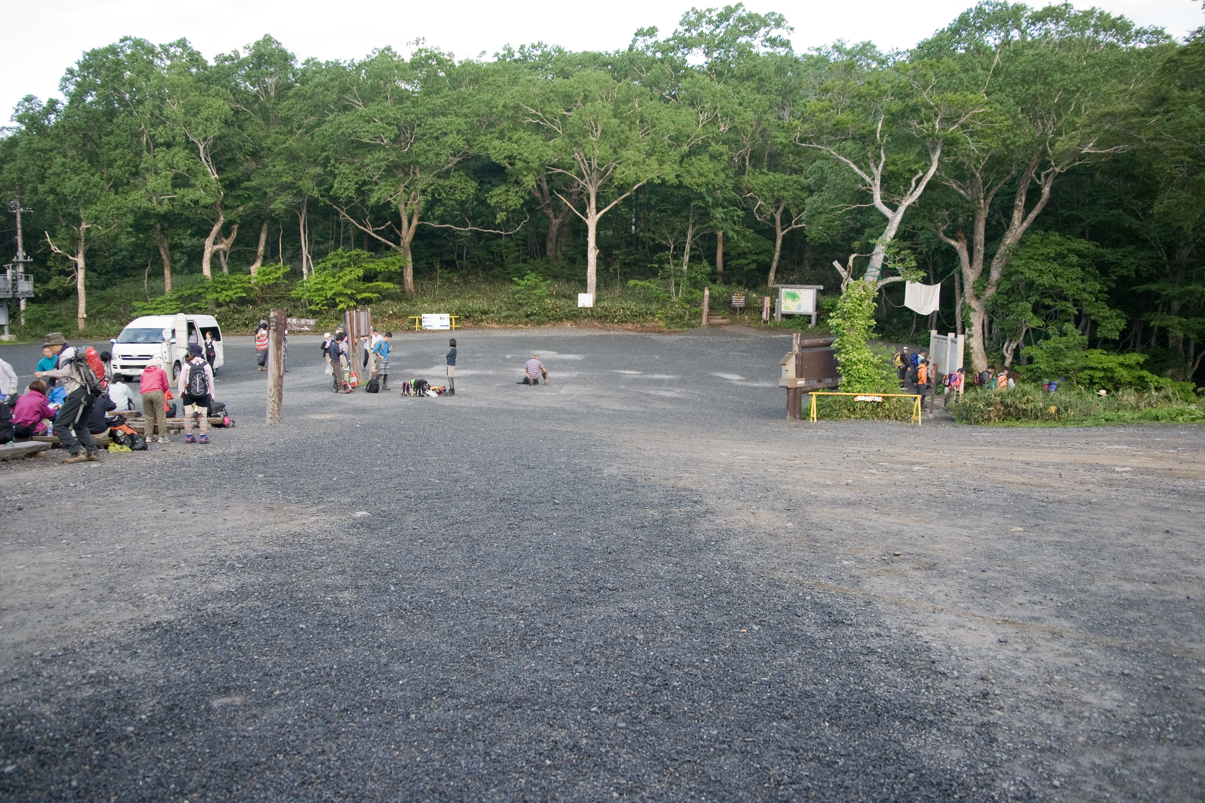 Hatomachi Pass, Gunma Pref., Honshu, Japan.